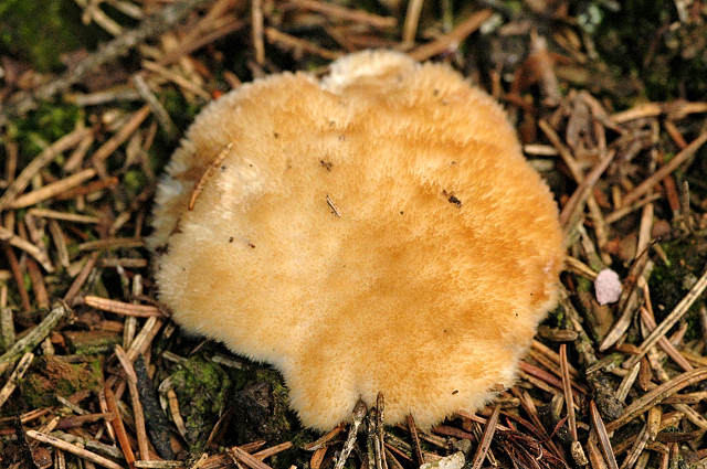 Postia ptychogaster from Commanster, Belgium. The determination of the species shown in this picture has been verified.